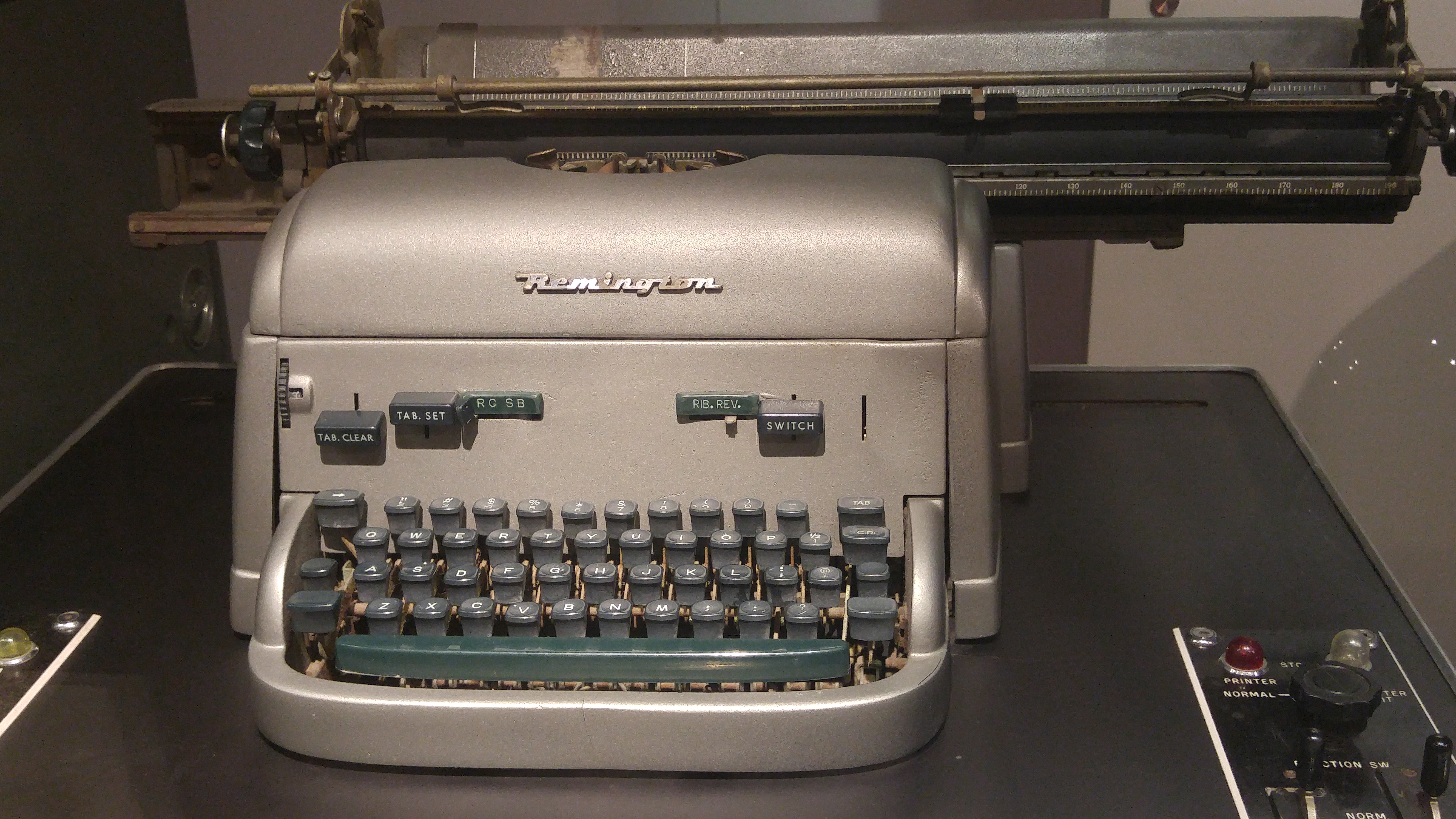 This is the first Univac console printer